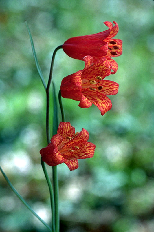 Fritillaria recurva — Scarlet fritillary. In the BLM Table Rock Wilderness, in the western Cascade Mountains of northwestern Oregon. BLM photo, no copyright.